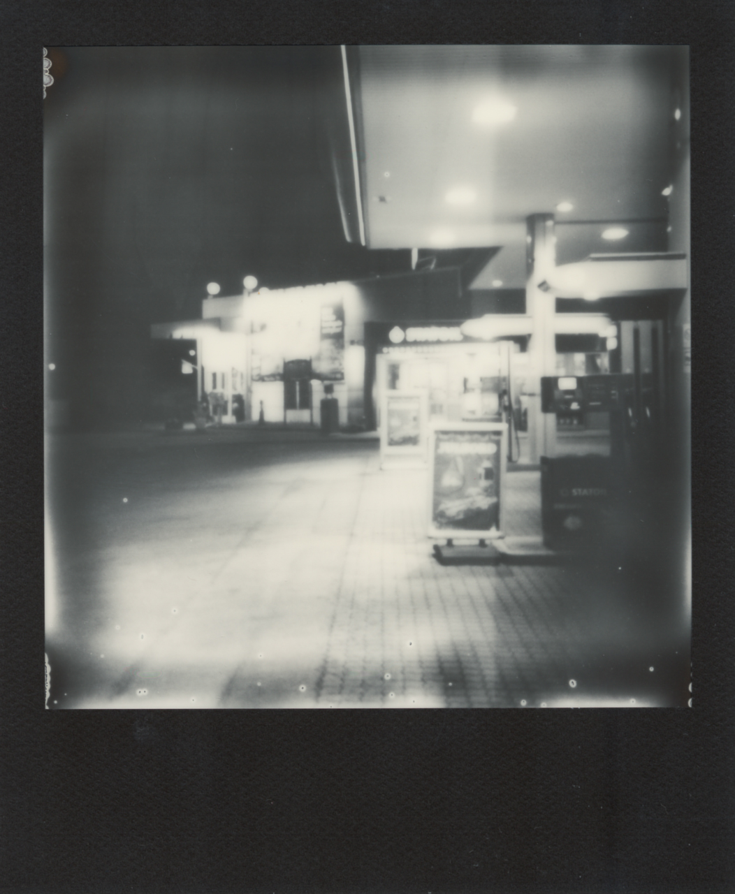 Gas station